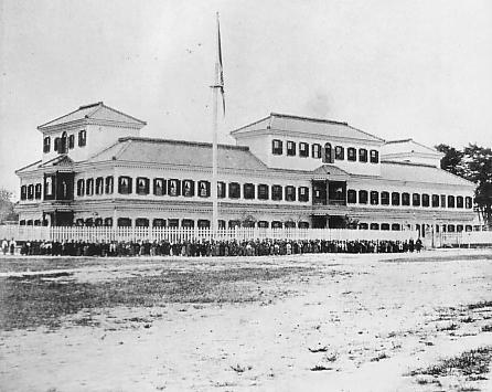 Choyo School